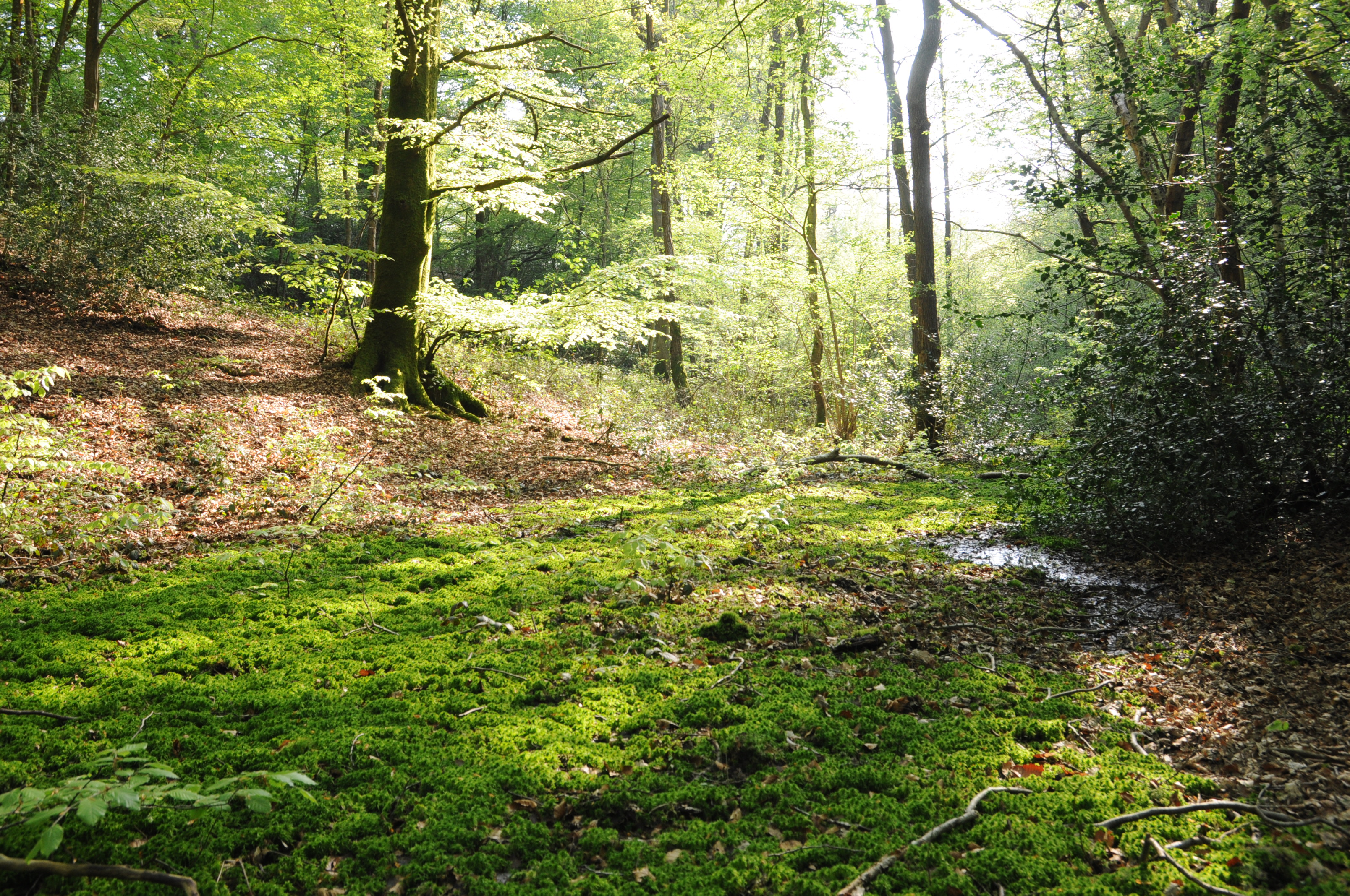 Forêt domaniale de Desvres - Tourbière